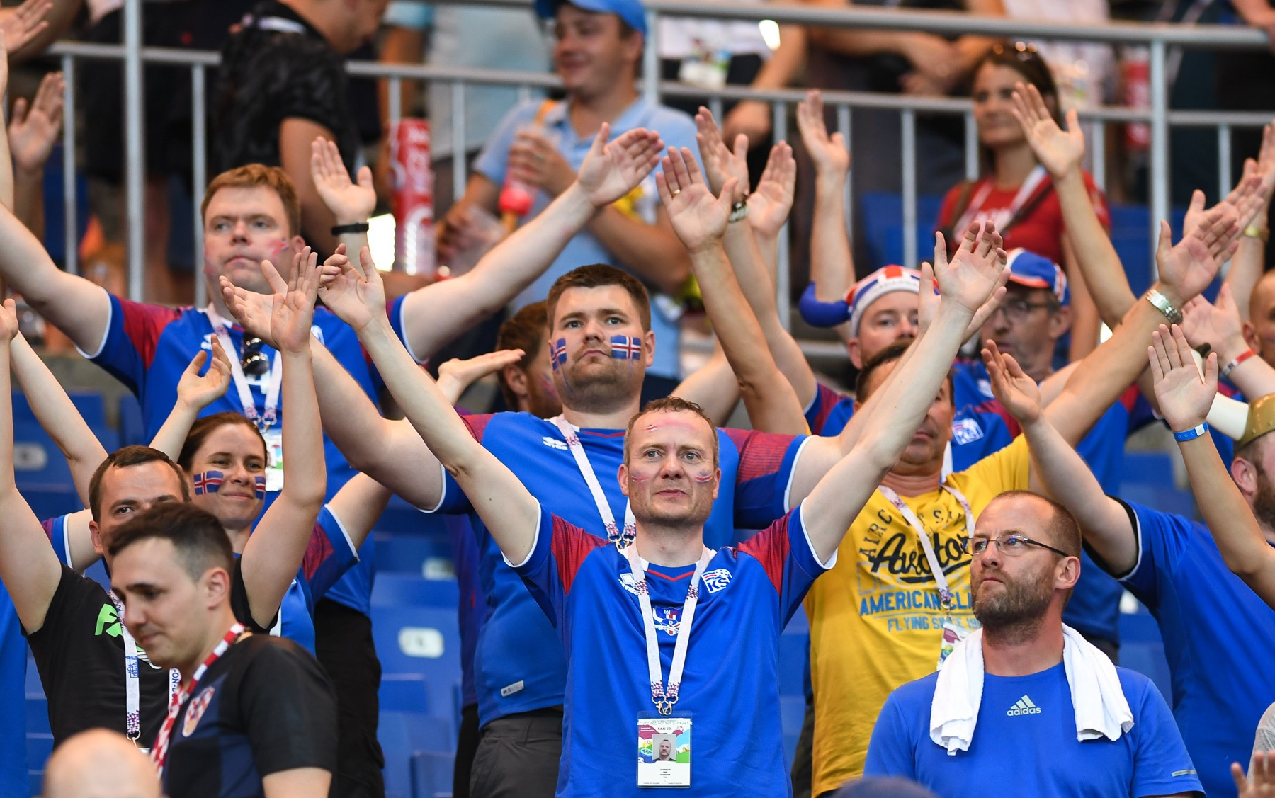 Iceland and Croatia match at the FIFA World Cup 2018-06-26